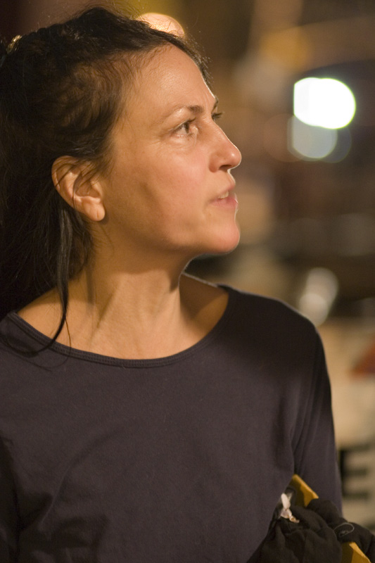 Lisa Germano at Tonic in NYC